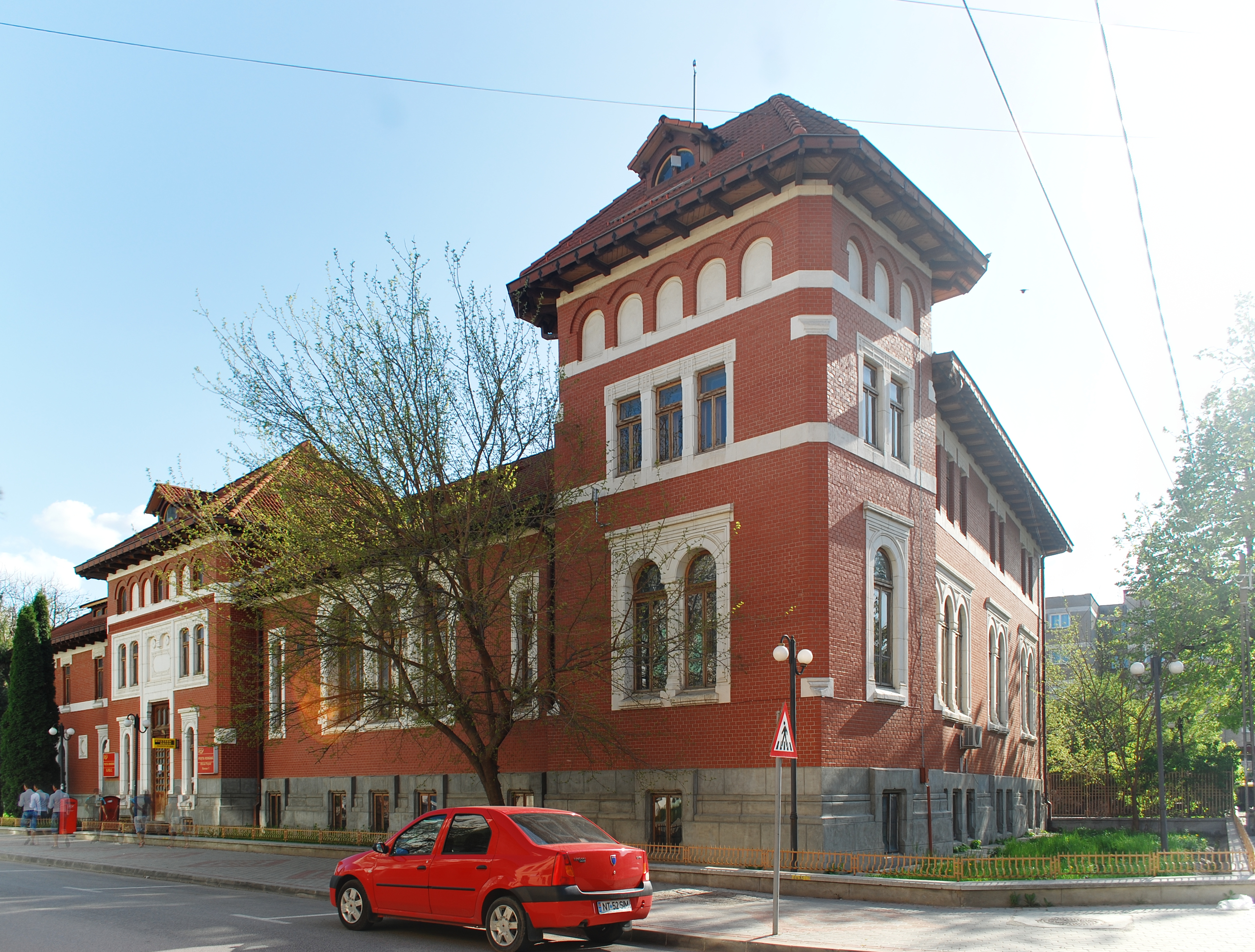 Post office in Roman, Neamț County, RomaniaRomână: Poșta din Roman, județul Neamț, România